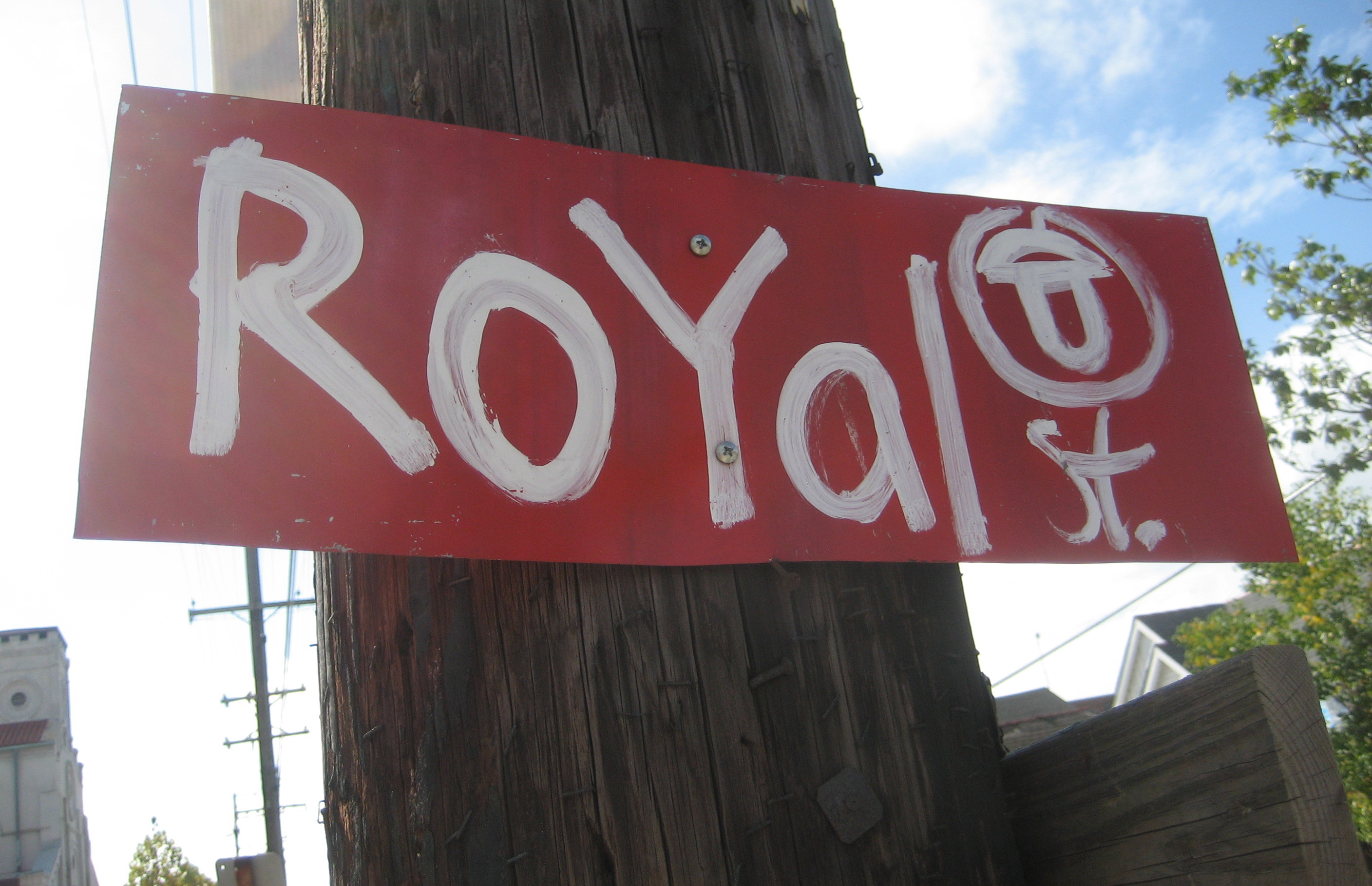 New Orleans: Street sign for Royal Street made by community organization "Acorn" in the Lower 9th Ward. One of many signs made by local individuals and organizations to replace street signage lost in the Hurricane Katrina disaster of 2005; new offical city signs not generally appearing until some 2 years later.